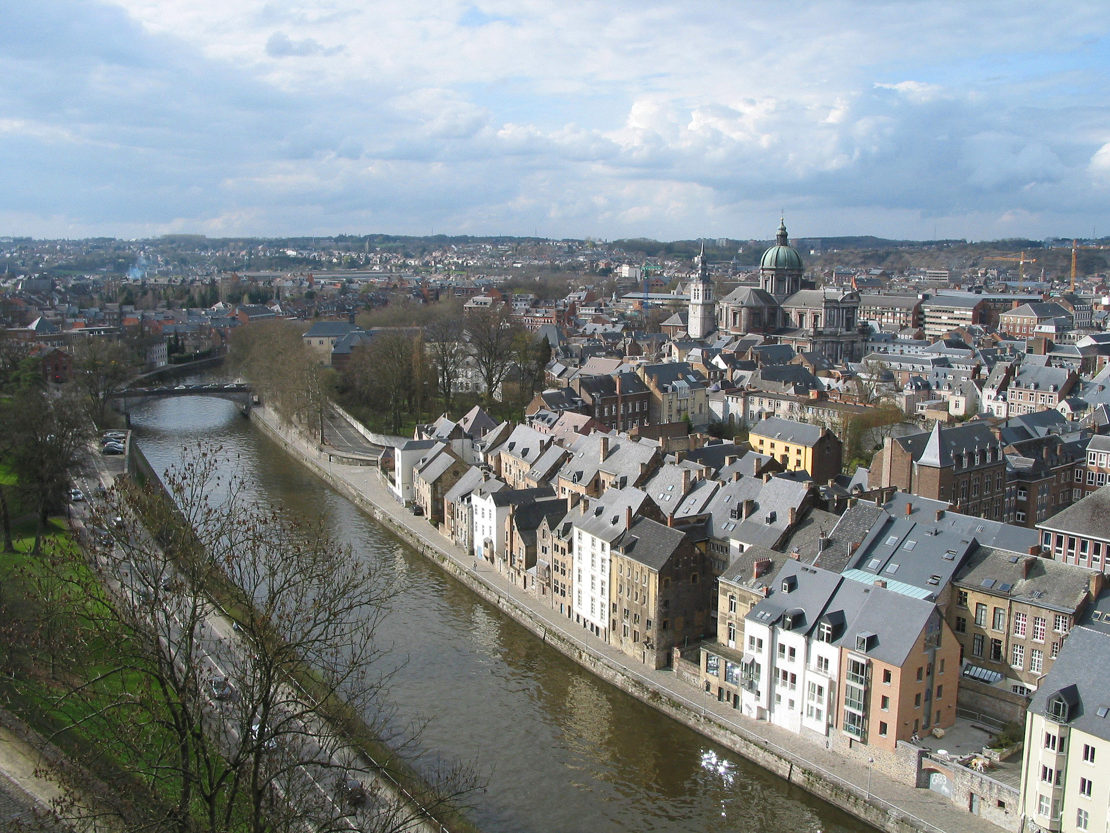 Namur, the Sambre river, the old city and the St. Aubin cathedral (XVIIIth century).